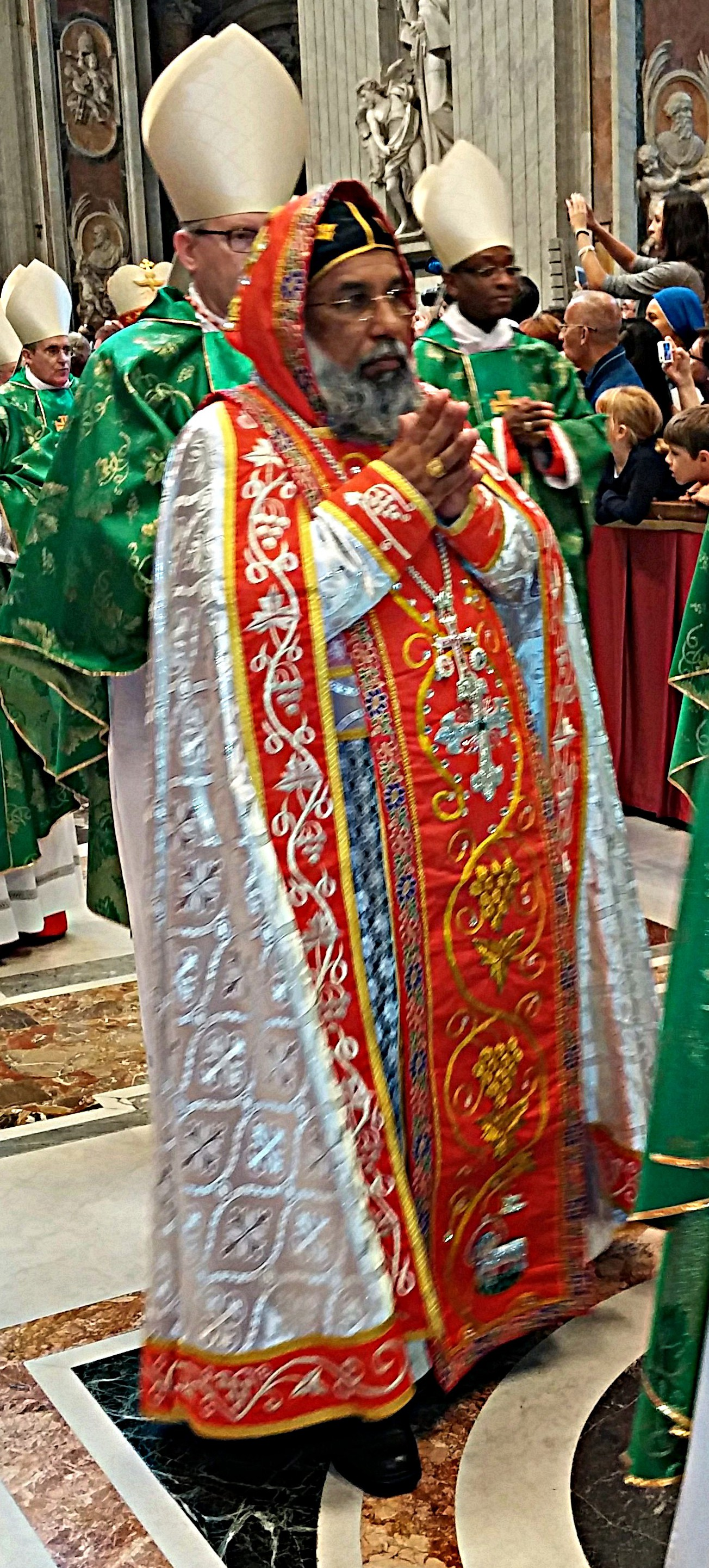 Major Archbishop Baselios Cleemis Cardinal Thottunkal attending a Papal mass in Saint Peter's Basilica, Vatican City.